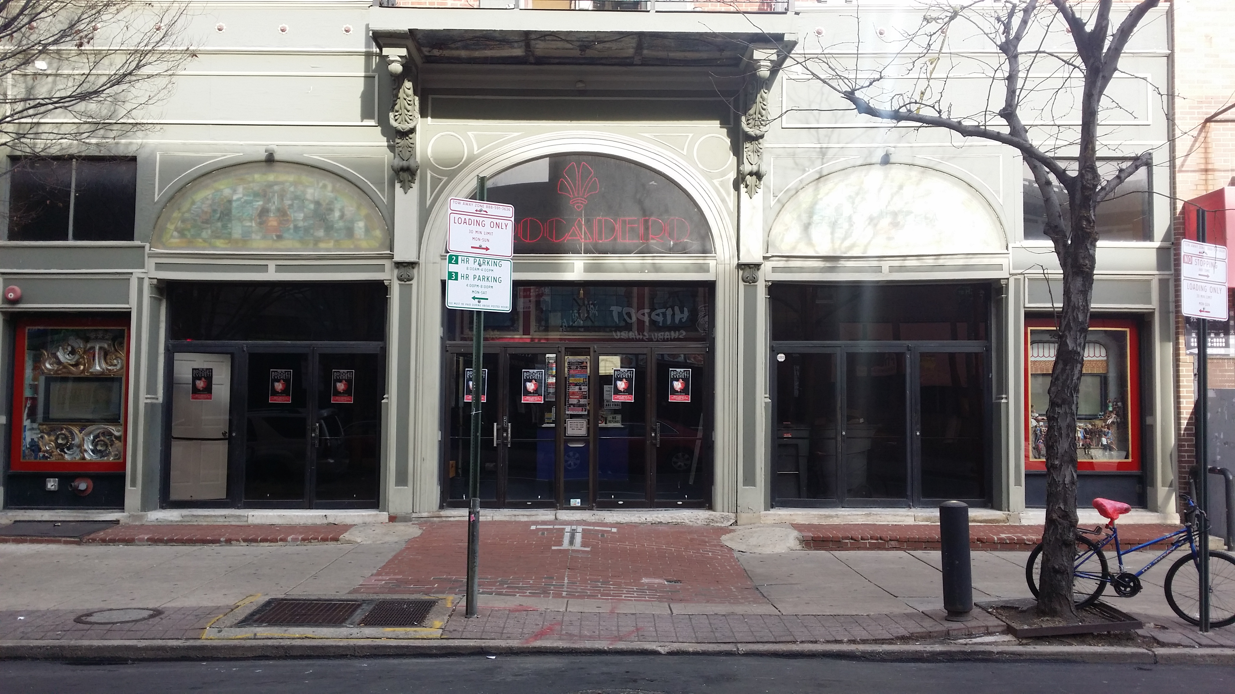 The Trocadero Theater, 1003 Arch Street, Philadelphia, January 15, 2016, Photo by Morris Levin